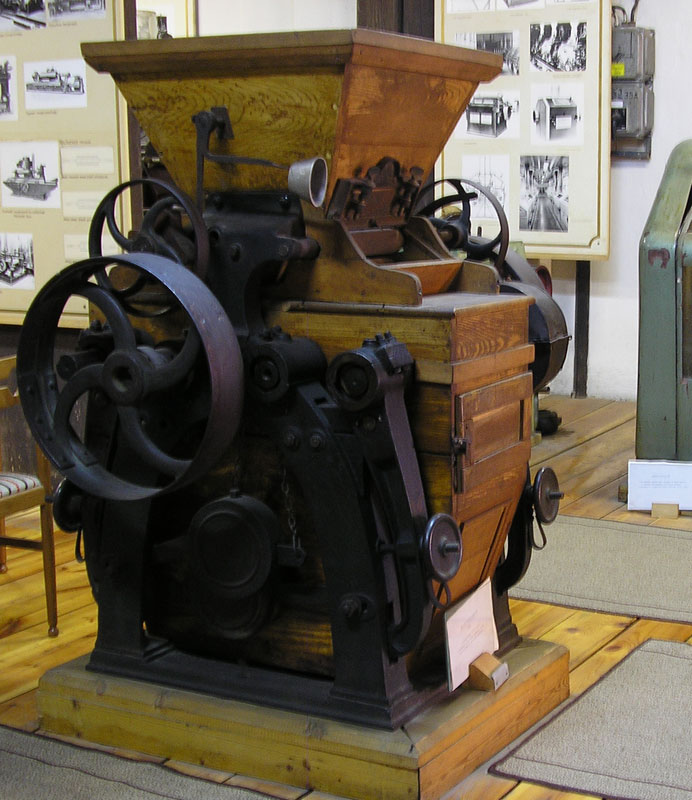 The Museum of Mill, Budapest, Hungary